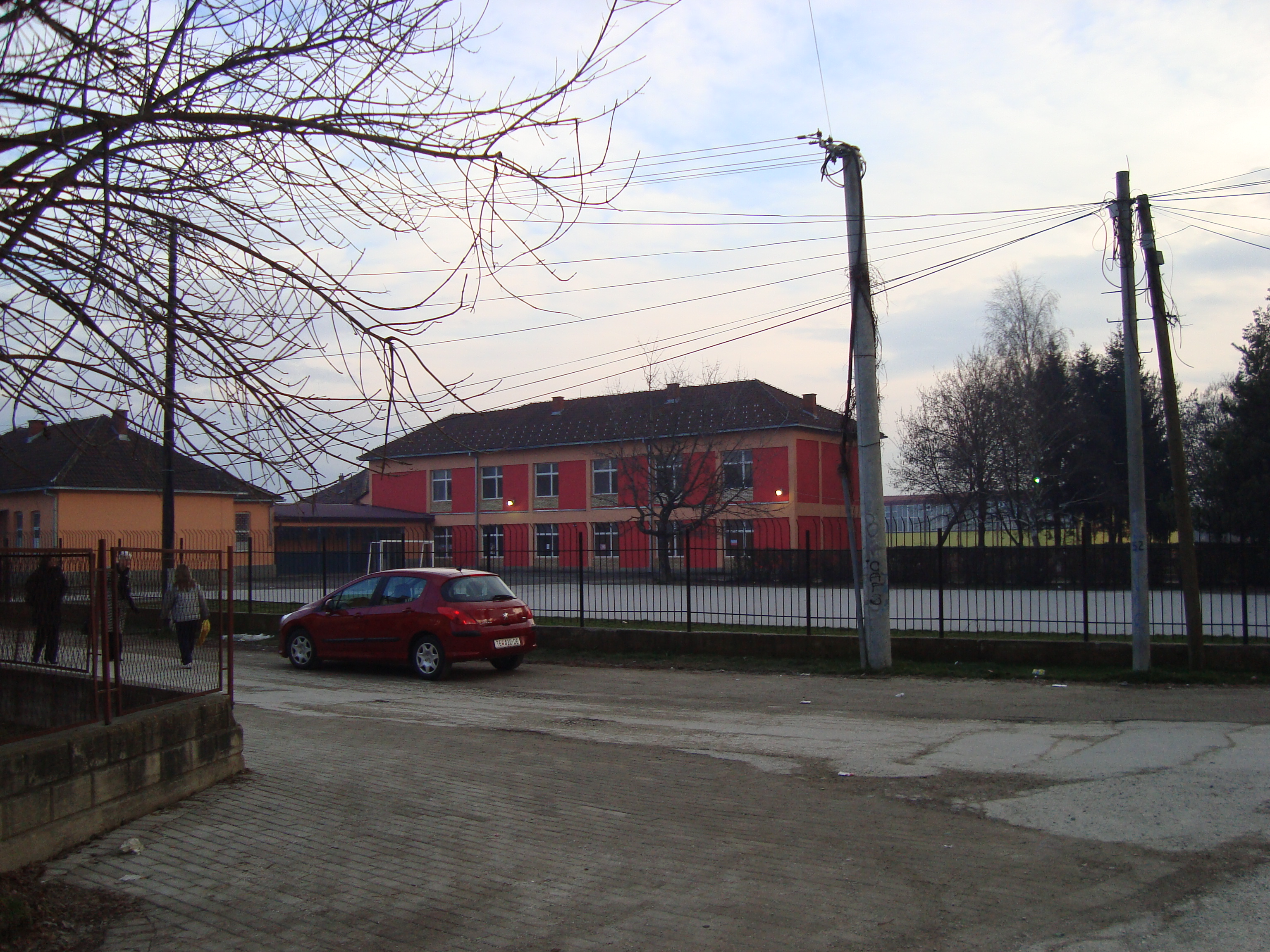 The school 'Kočo Racin' in Brvenica, Macedonia.